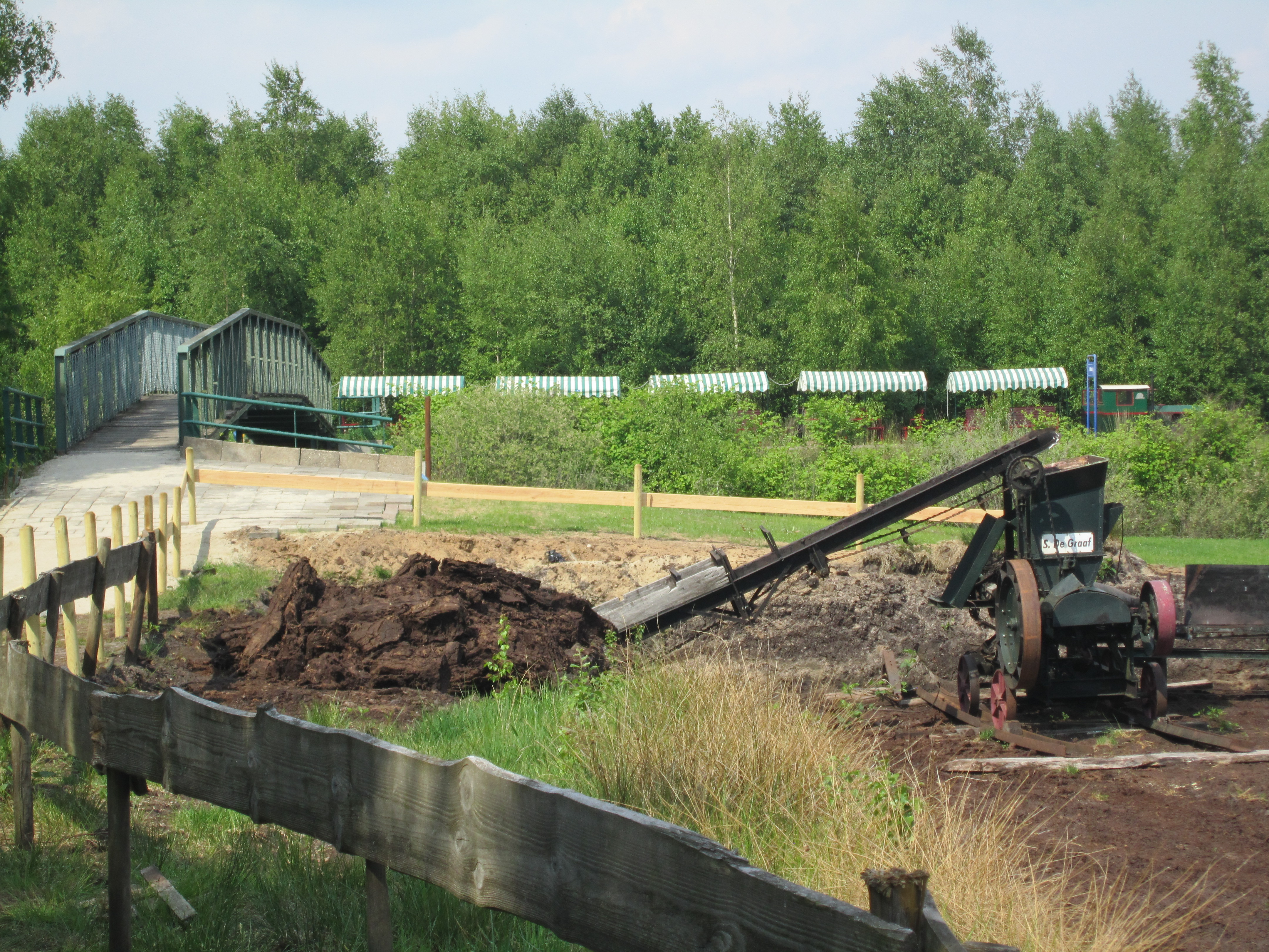 Veenpark in Barger Compascuum (Drenthe): Station "Calluna"